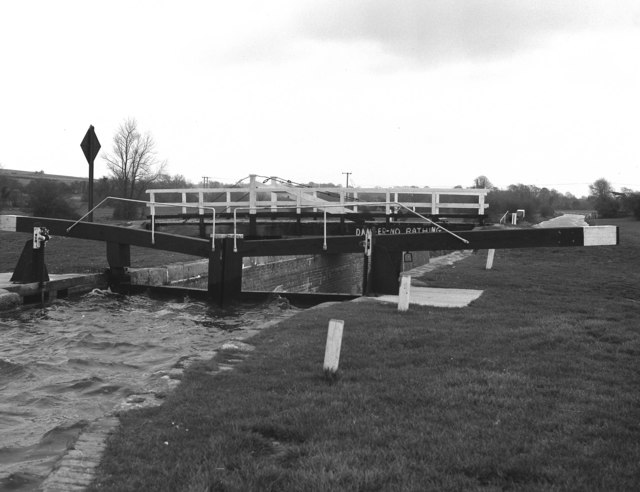 Hungerford Marsh Lock No 73 and Swing Bridge The water above the lock appears quite choppy in this March 1976 picture, with a typical K&A swing bridge across the lock.